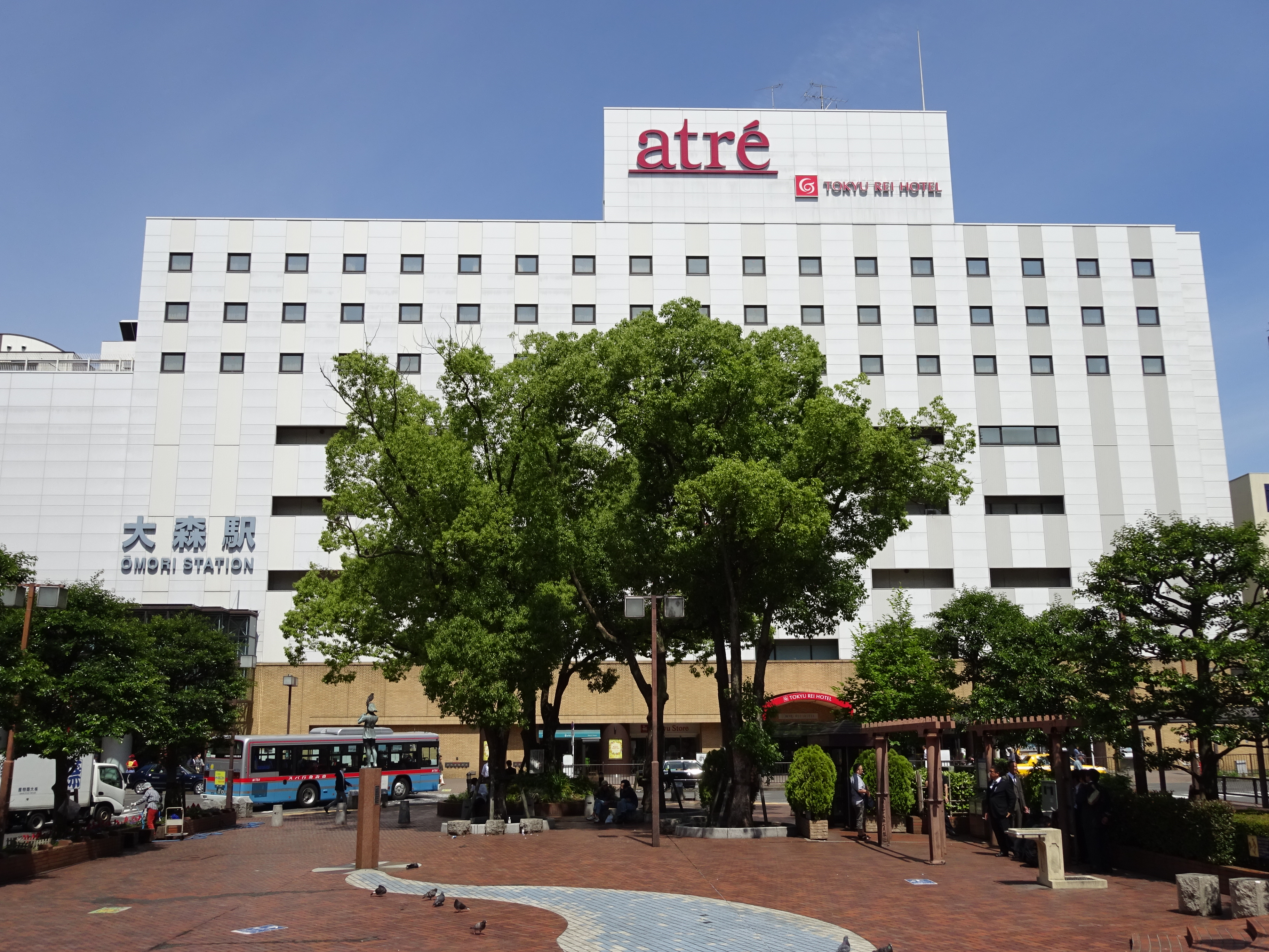 East Entrance of Ōmori Station